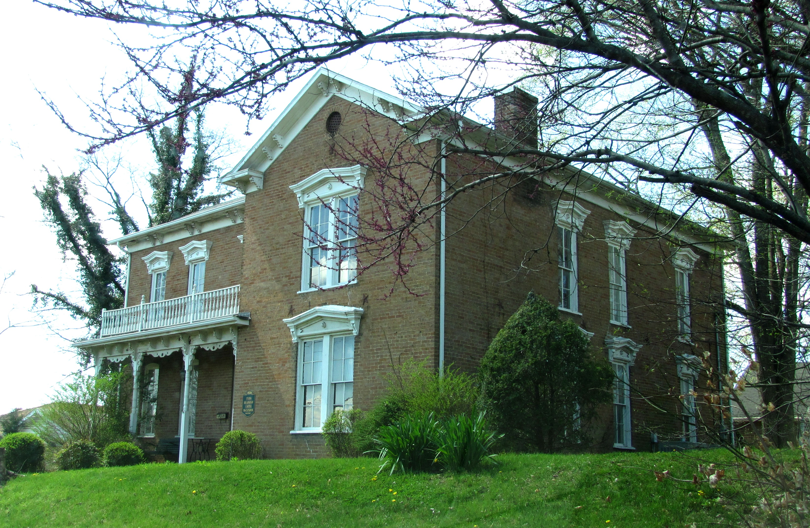 The NRHP-listed Thomas Evans House in Tompkinsville, Kentucky, USA.